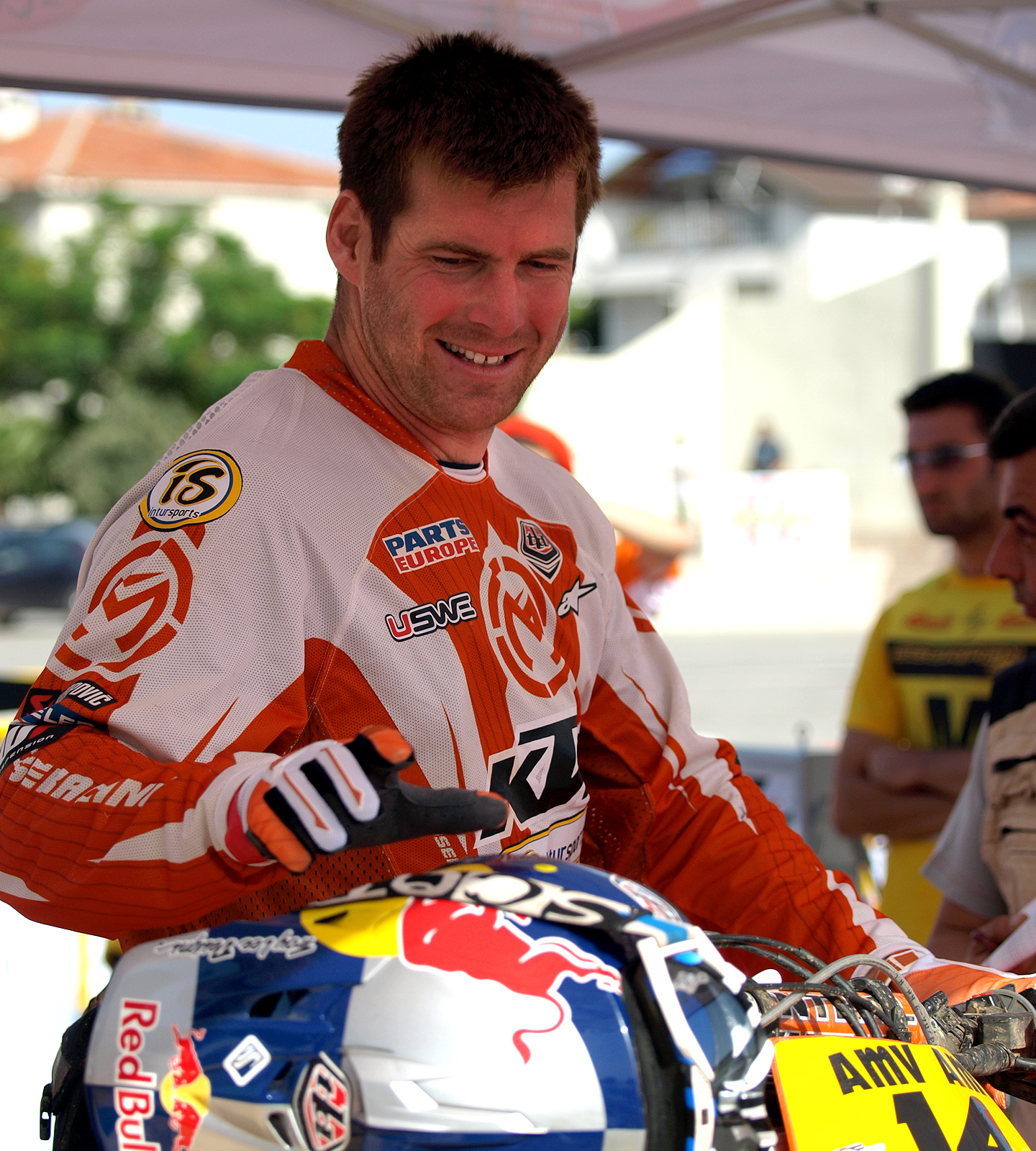 David Knight in Fethiye, Muğla, TR (September 2010)